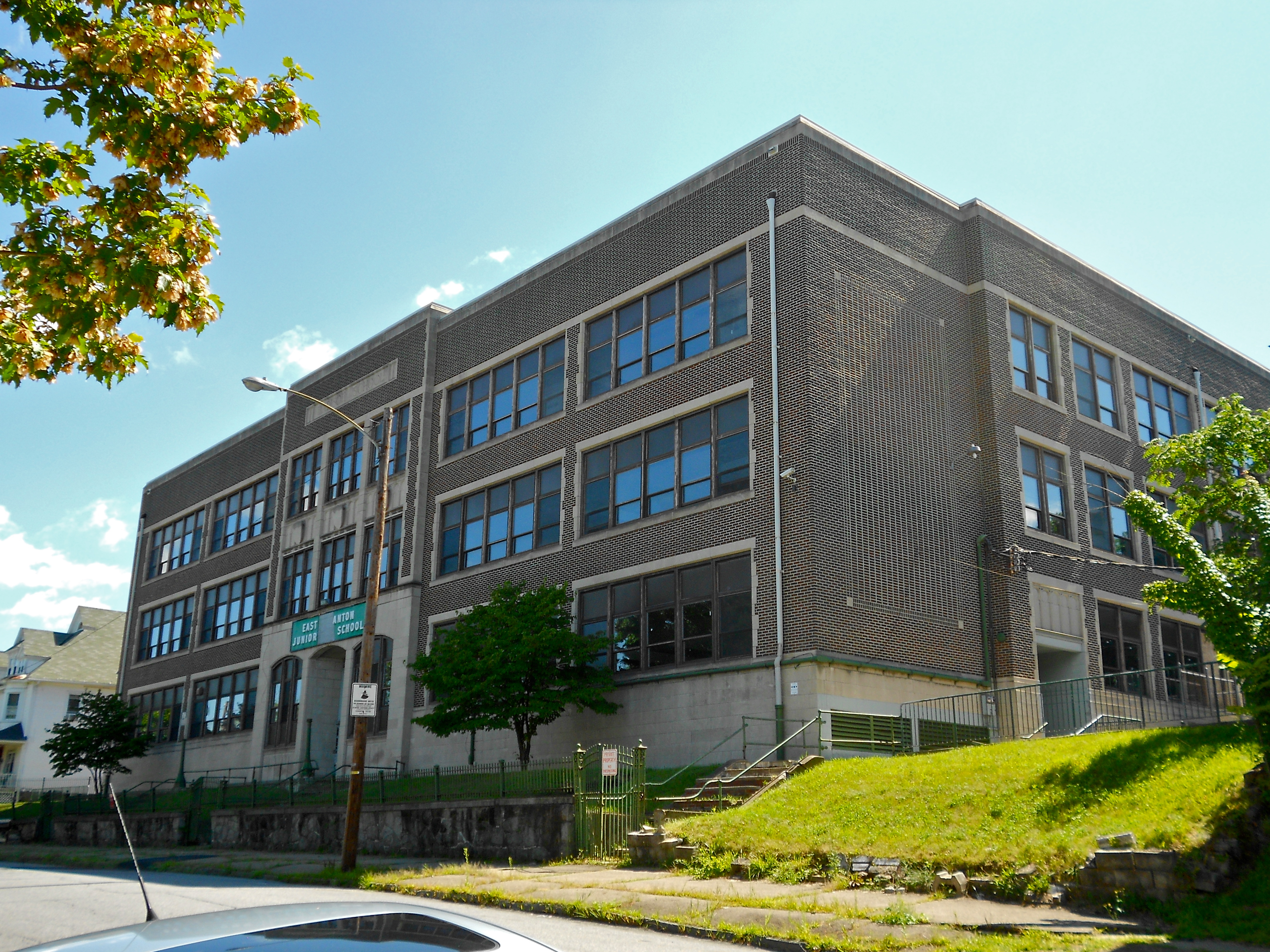 James Madison School, listed on the NRHP on June 24, 2009, at 528 Quincy Avenue, Scranton, Lackawanna County, Pennsylvania. Part of the "Educational Resources of Pennsylvania MPS" on the NRHP.